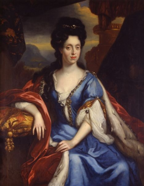 Anna Maria Luisa de' Medici (1667-1743), Electress of the Palatinate